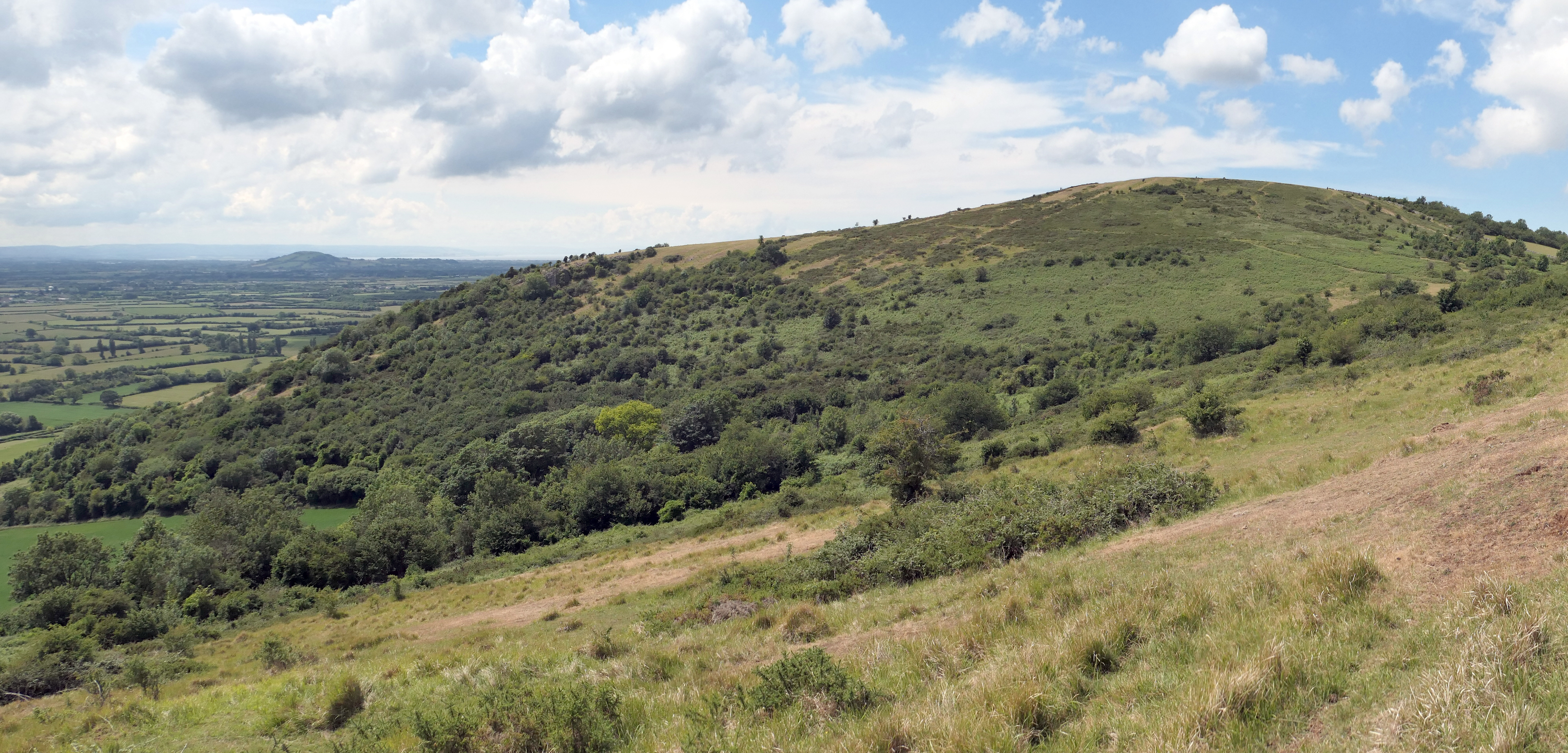 A view of Wavering Down in the Mendip Hills. In the distance is Brent Knoll.